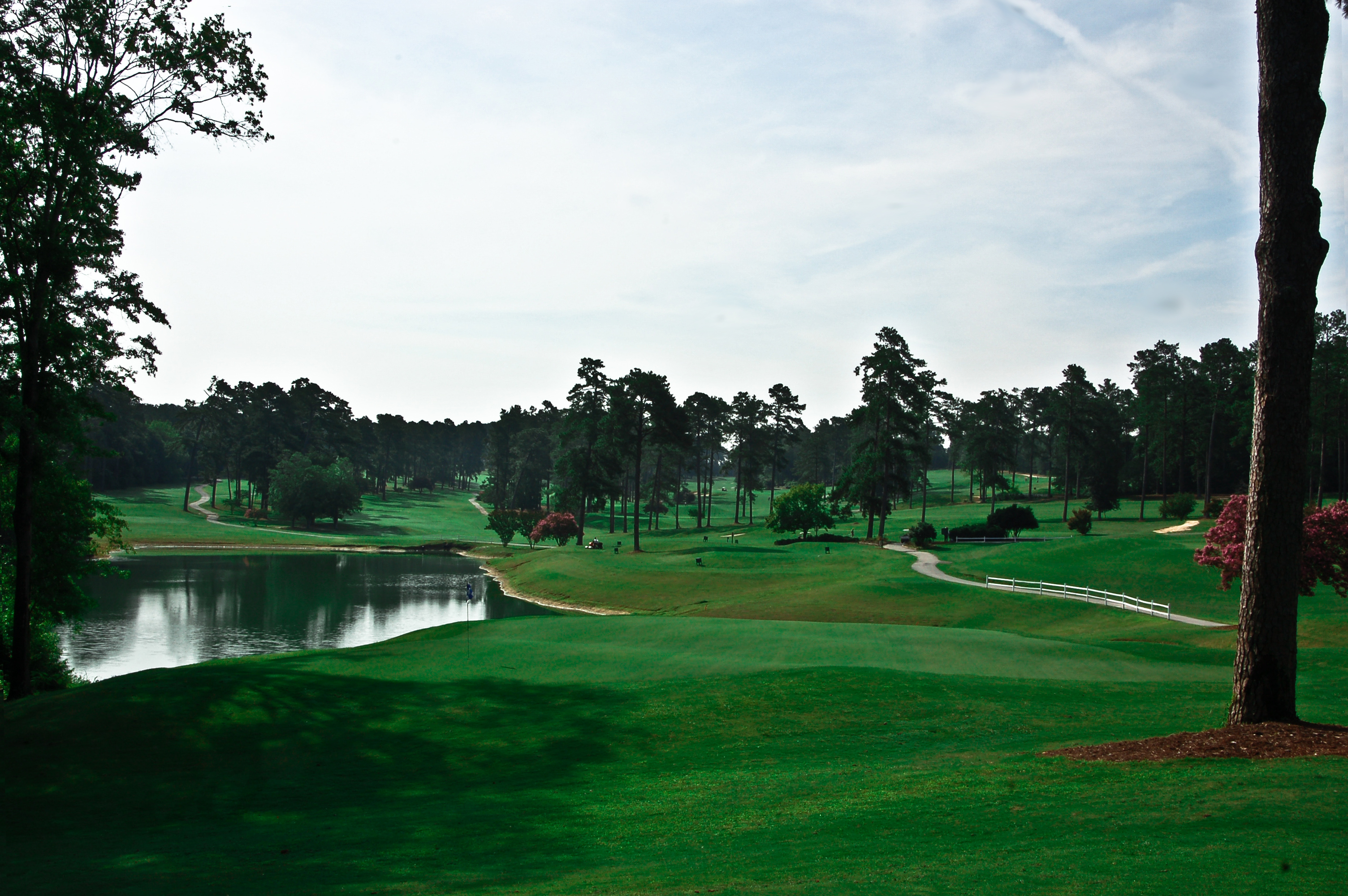 The second par 3, and first on the back nine at Forest Hills Golf Club in Augusta, Ga., features a steep slope towards the front of the green - and the pond.